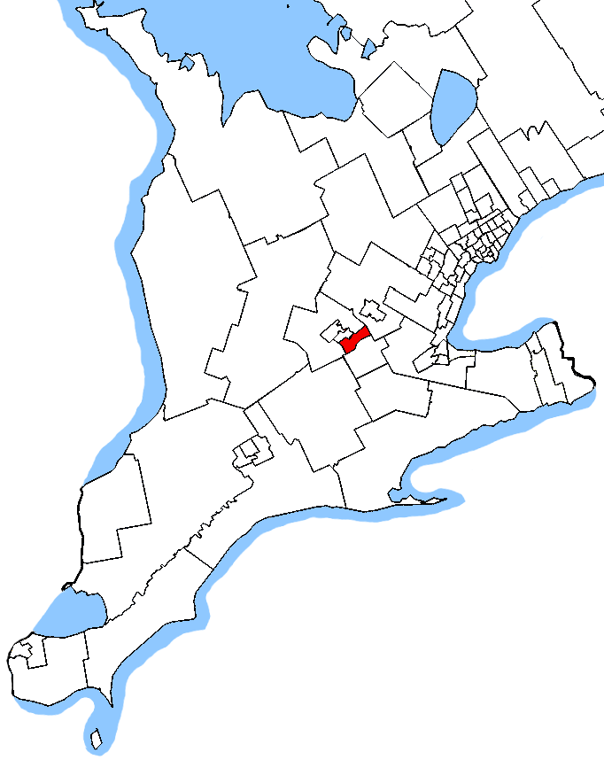 This is a map of southwestern Ontario showing the location of the Kitchener South—Hespeler federal electoral district.